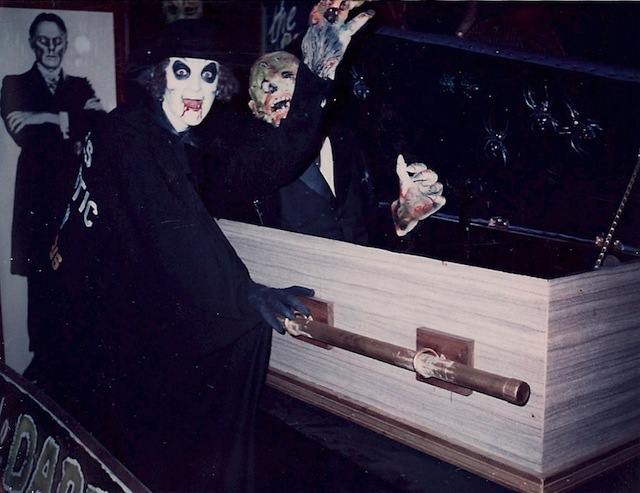 Count Pugsly (Wilum Hopfrog Pugmire) with the Thing, inside Jones' Fantastic Museum which was in Seattle, USA during the period 1960-1980.